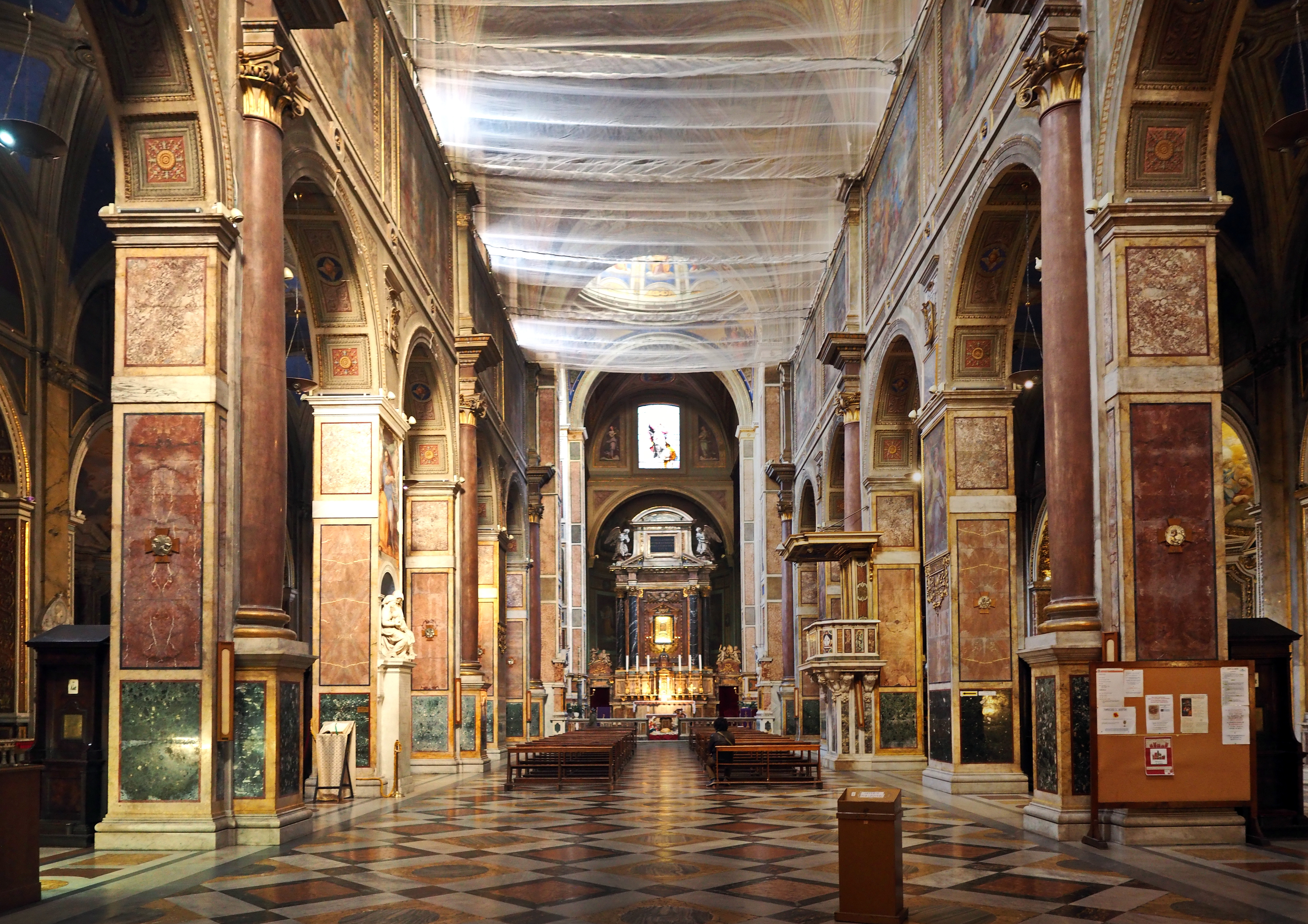 Sant Agostino (Rome); Nave